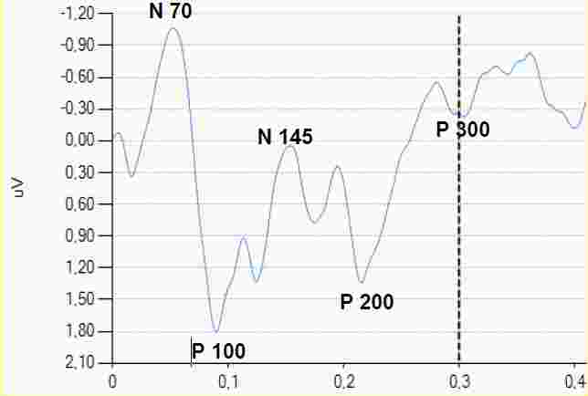 visual EPs